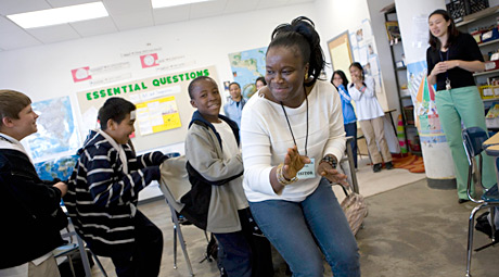 Liberian musician Fatu Gayflor teaching students at the Folk Arts-Cultural Treasures Charter School.